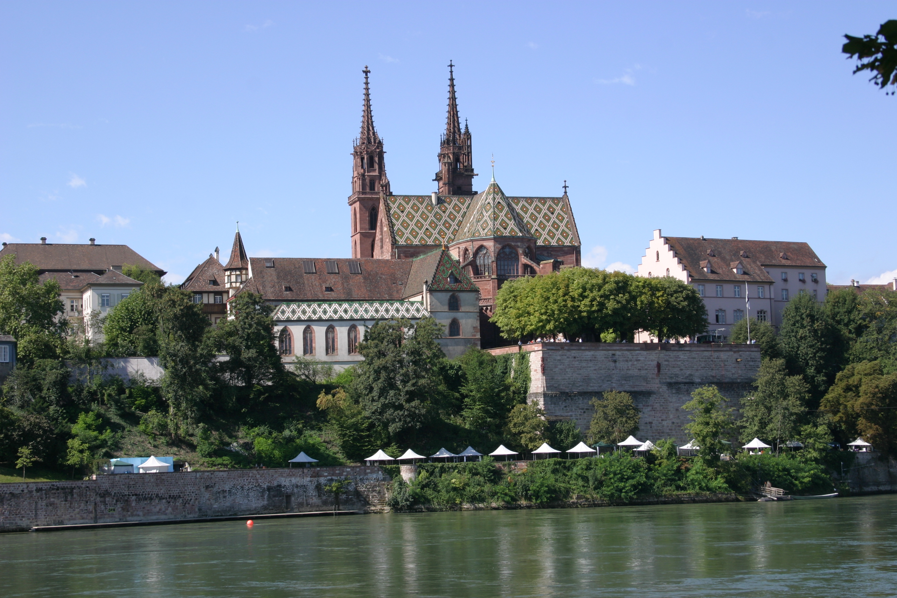 Remote view of Basel Minster